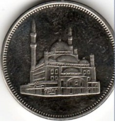 10 piastres obverse